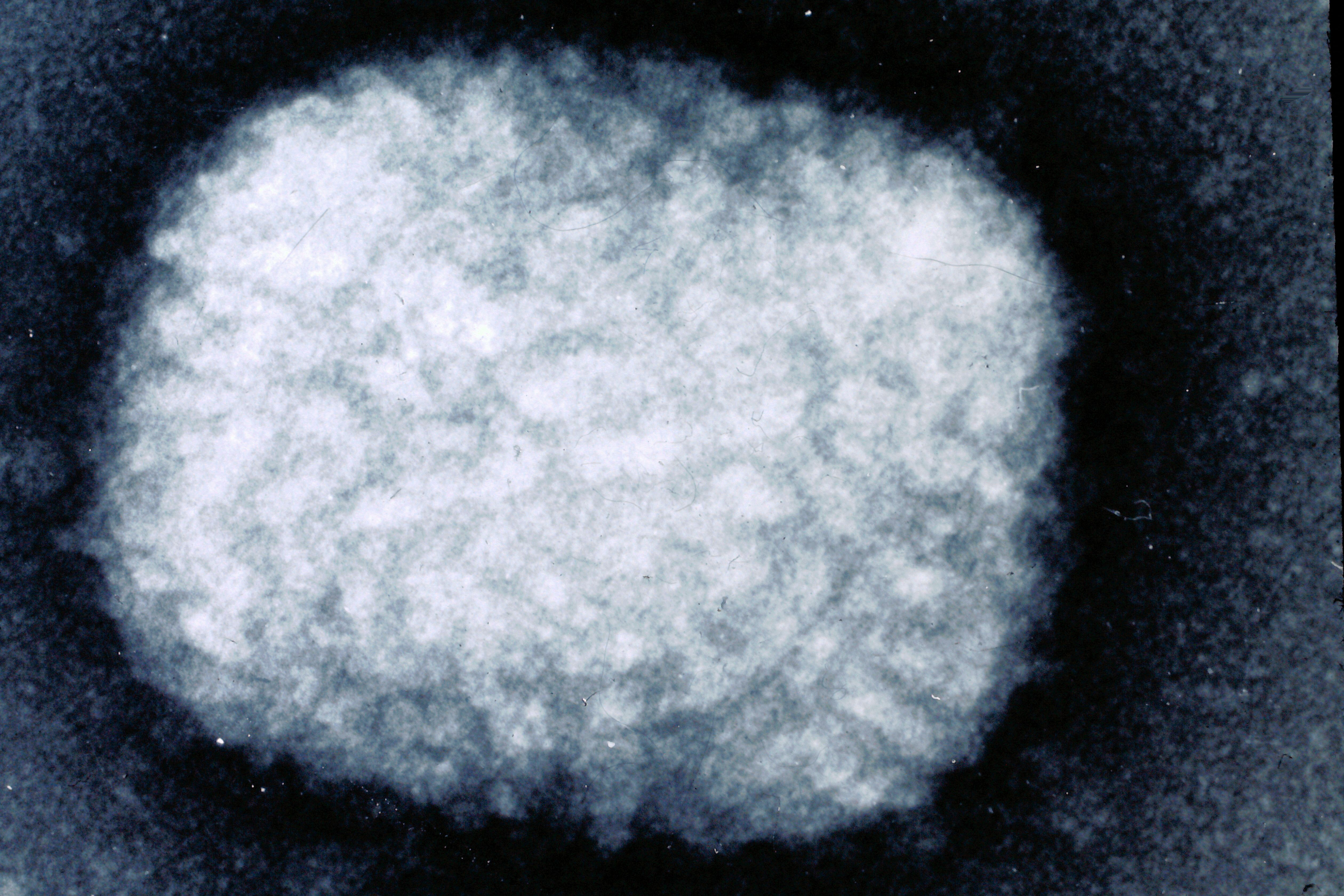 Transmission electron micrograph of a smallpox virus particle